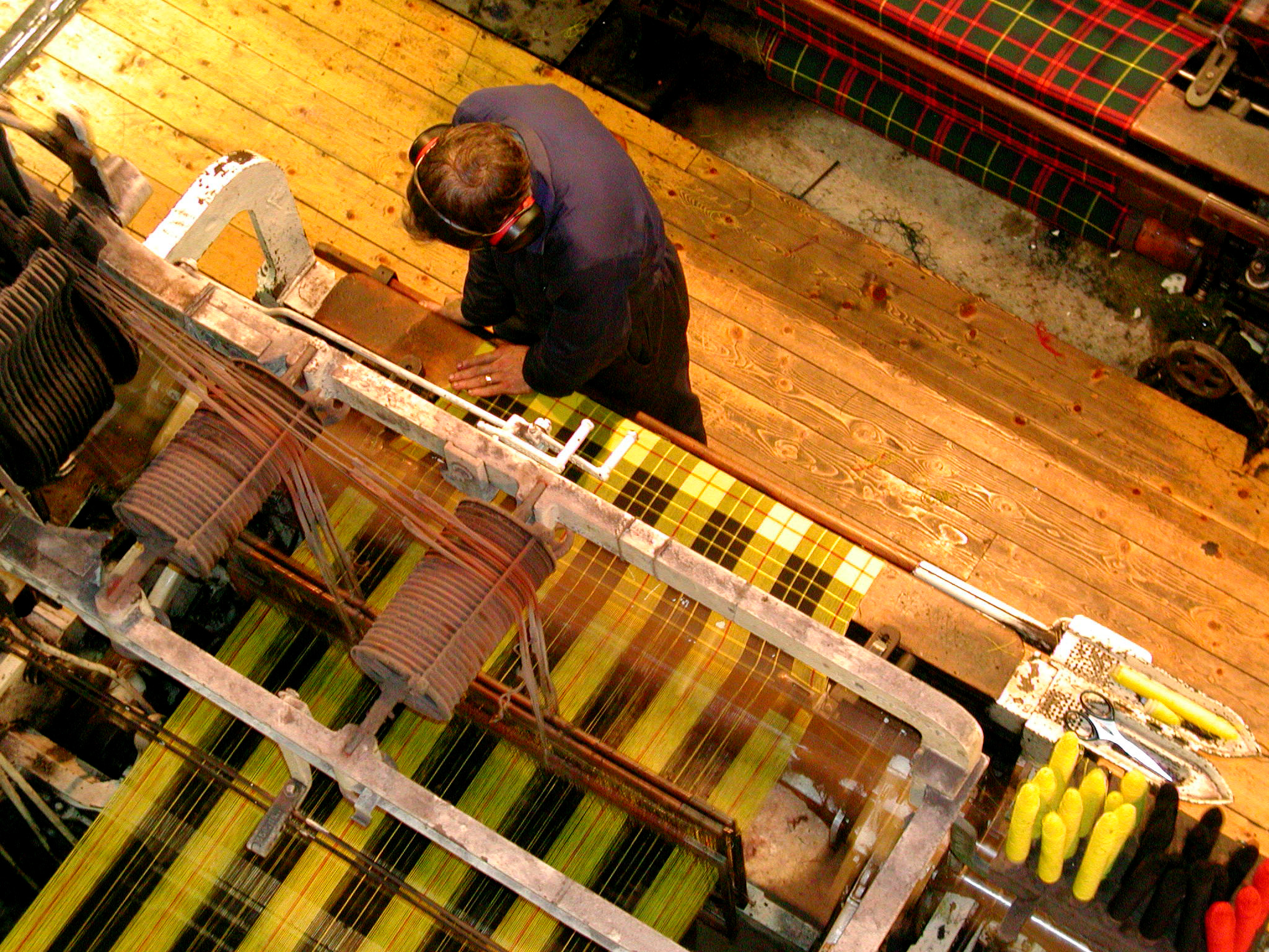 Photo taken 2005 in Edinburg at tourist shop which also have machines for making tartan textiles.